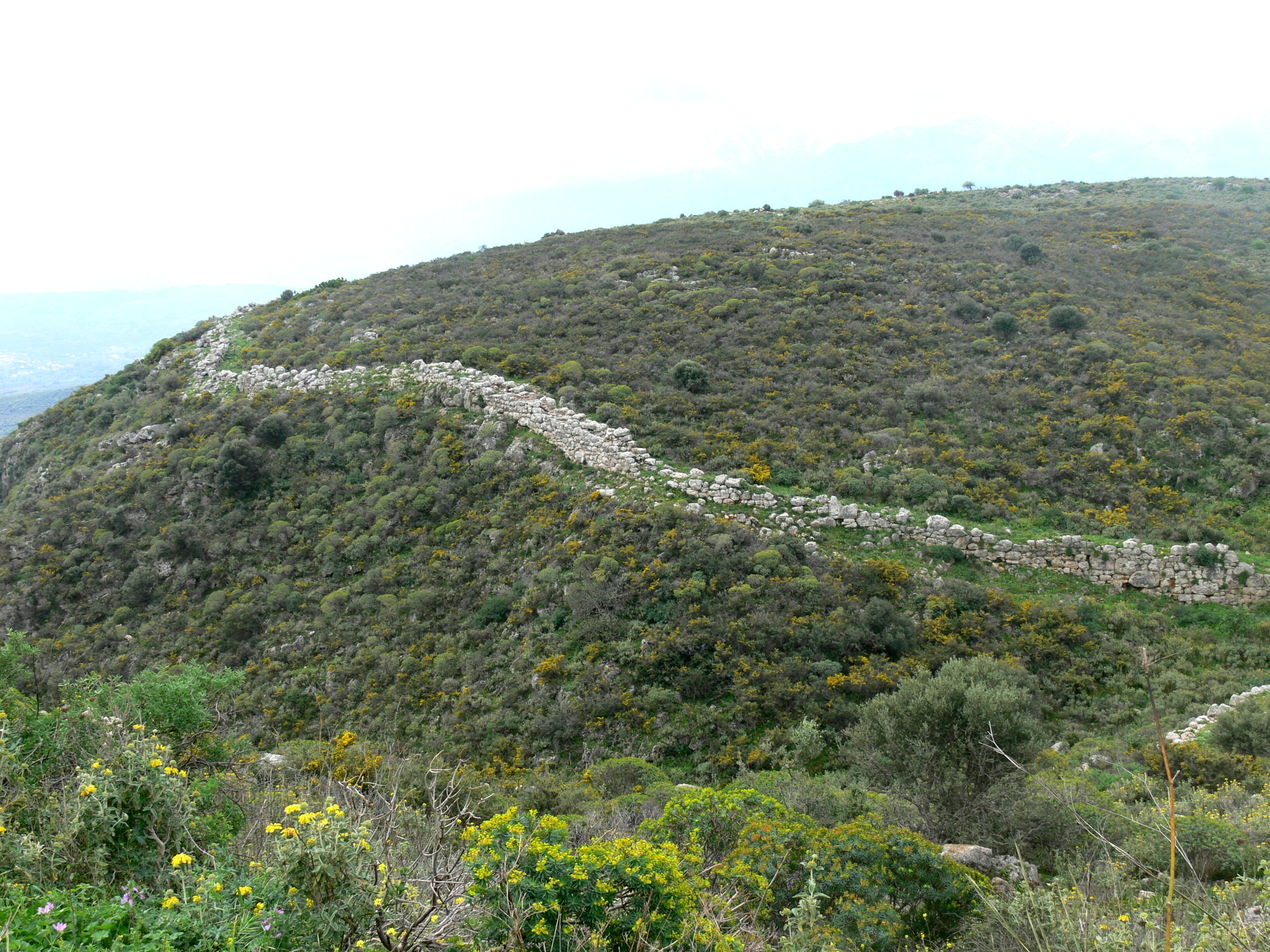 Aptera ( Crete ). Remnants of the ancient city walls ( 3rd c. B.C. )